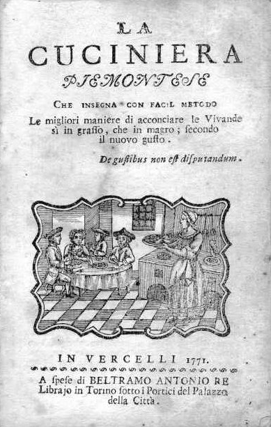 Frontispiece of La cuciniera piemontese, Vercelli in 1771 - Italy